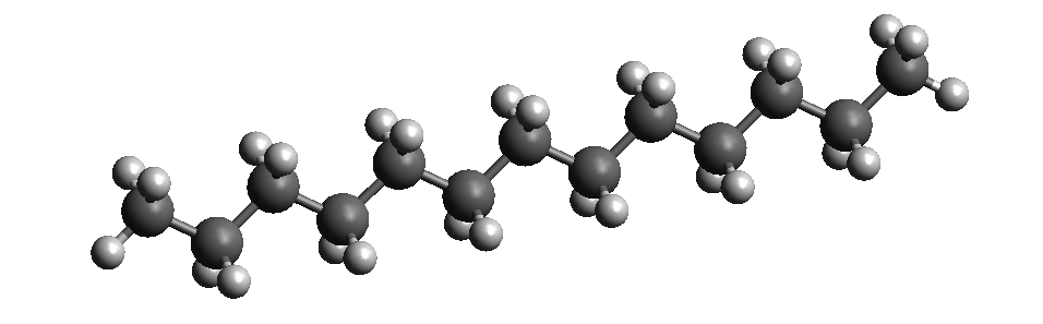 Ball-and-stick model of a tridecane molecule